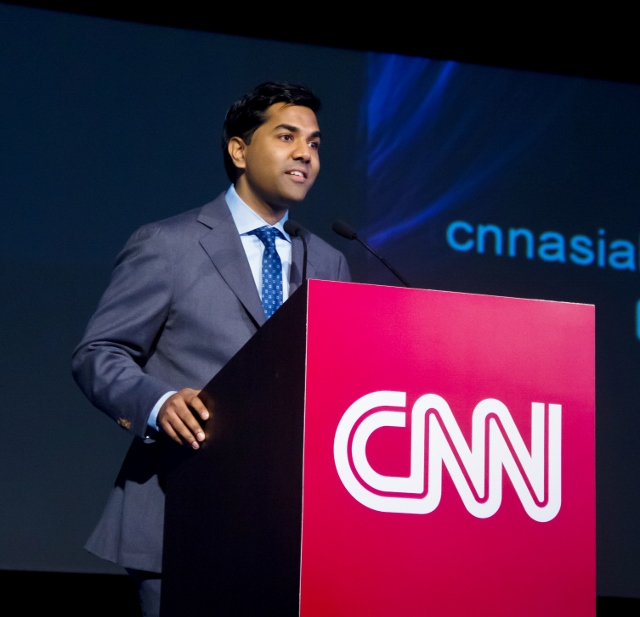 snapshot taken in Mumbai 2016